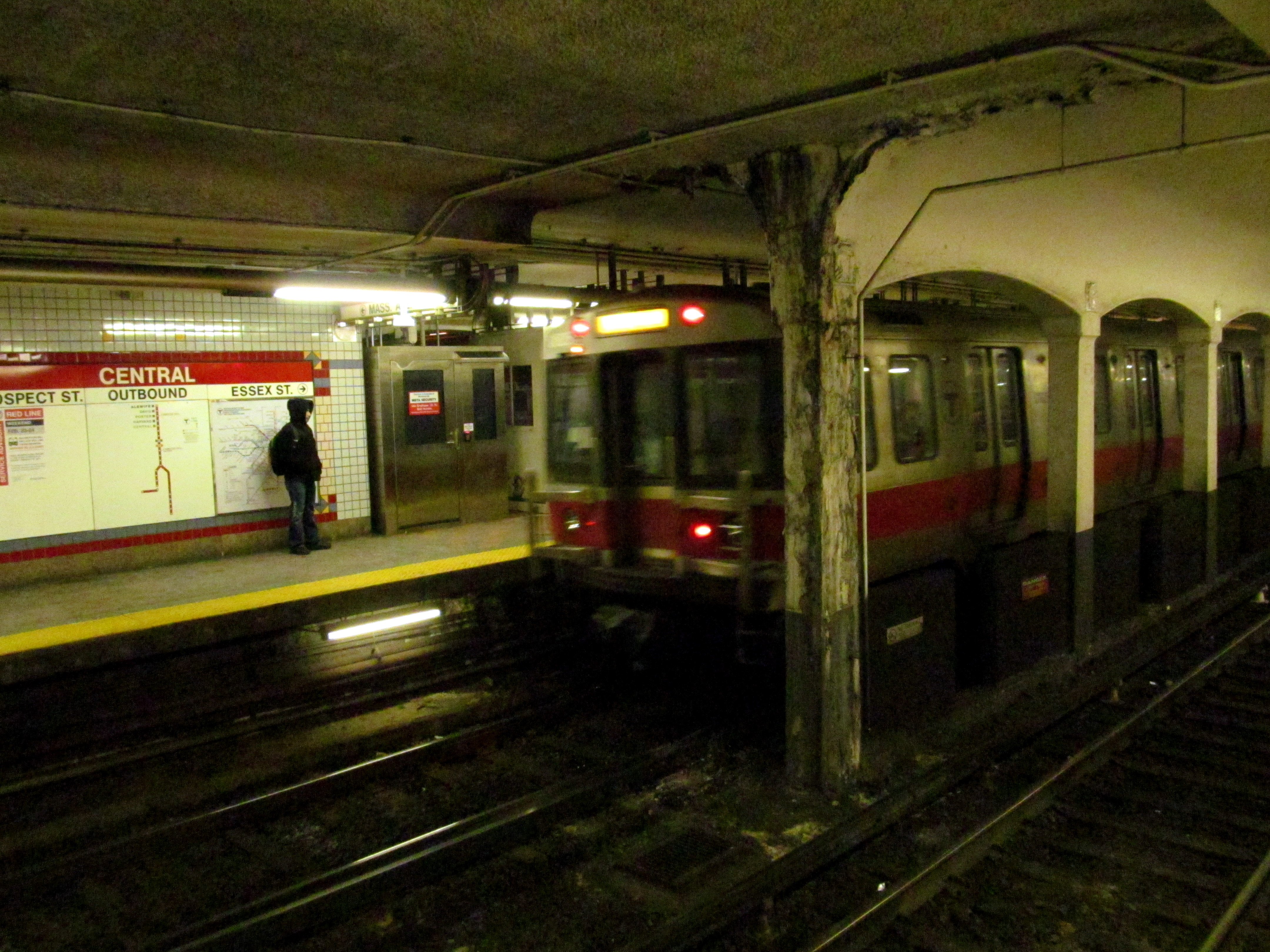 When Central Square station was extended for the use of 6-car trains between 1984 and 1987, the older architectural details were often not included. Here, an outbound train passes the end of the original 1912 station.